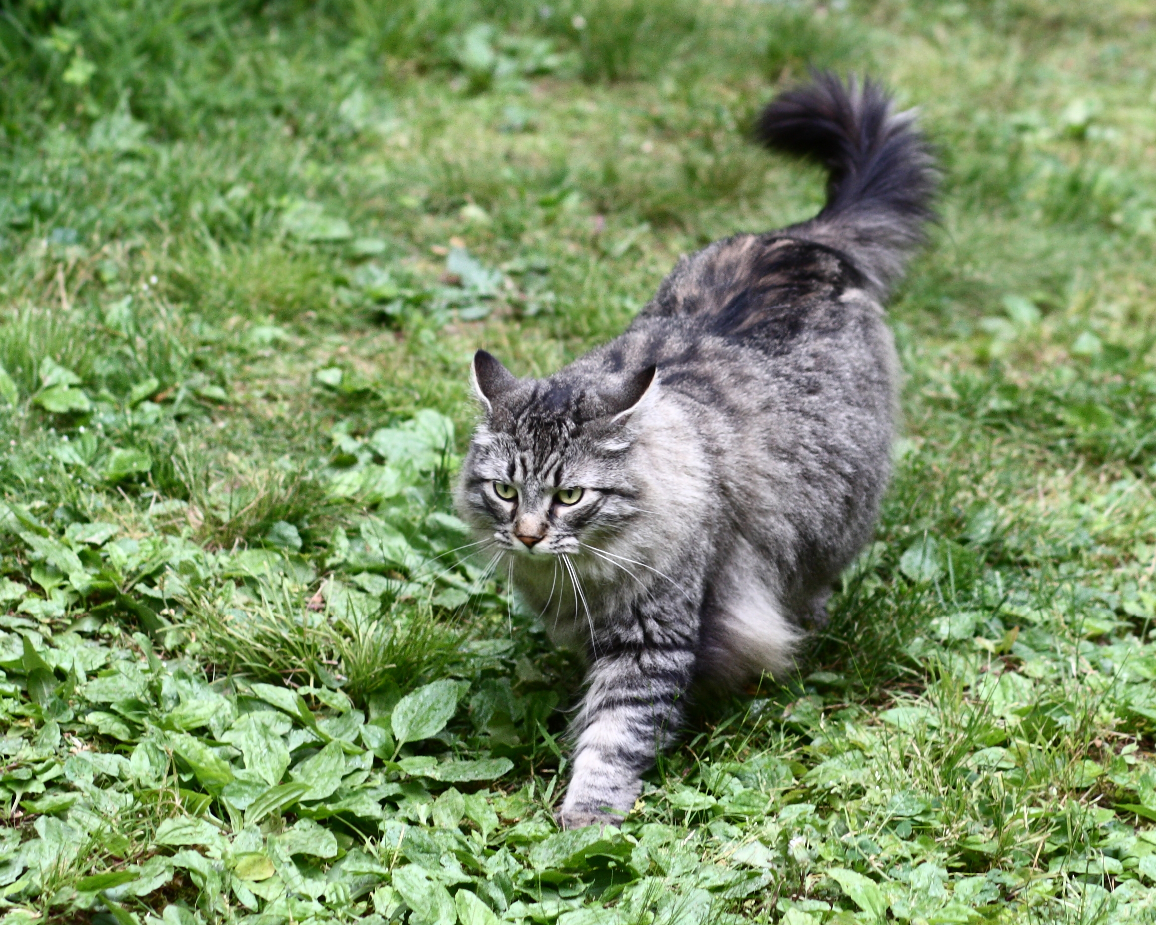 An adult Maine Coon tabby cat, from Connecticut, USA